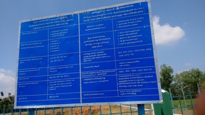 Maaligaimedu மாளிகைமேடு